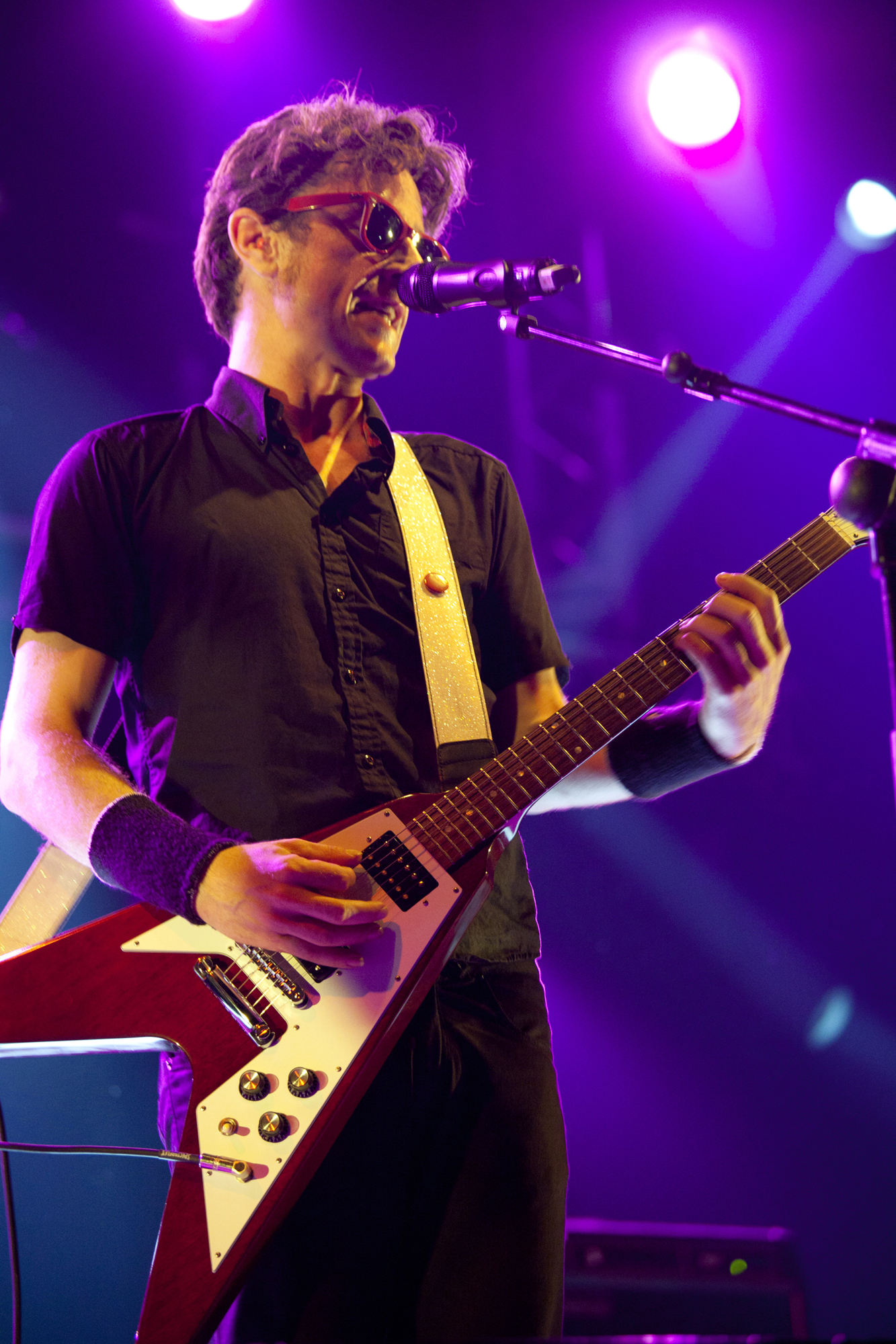 The Pinker Tones - Cruïlla 2010